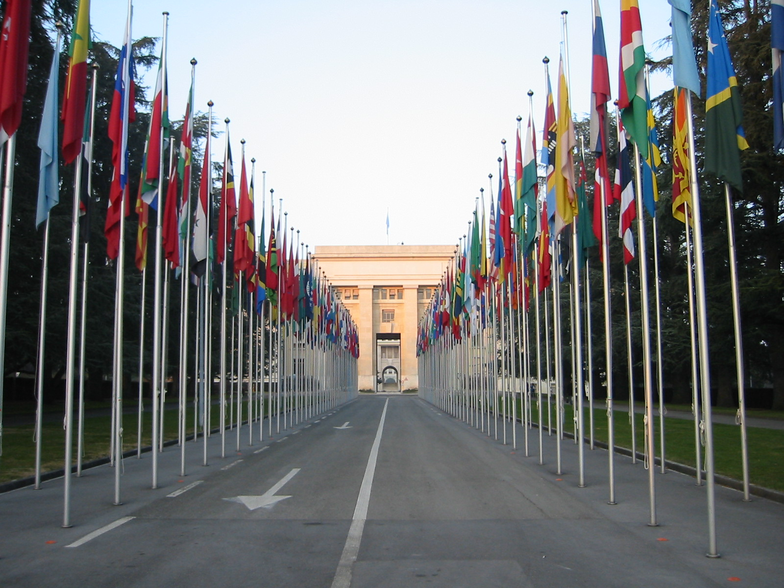 Flags at the ONU building, Geneva.